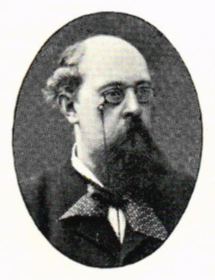 Heinrich Dumrath